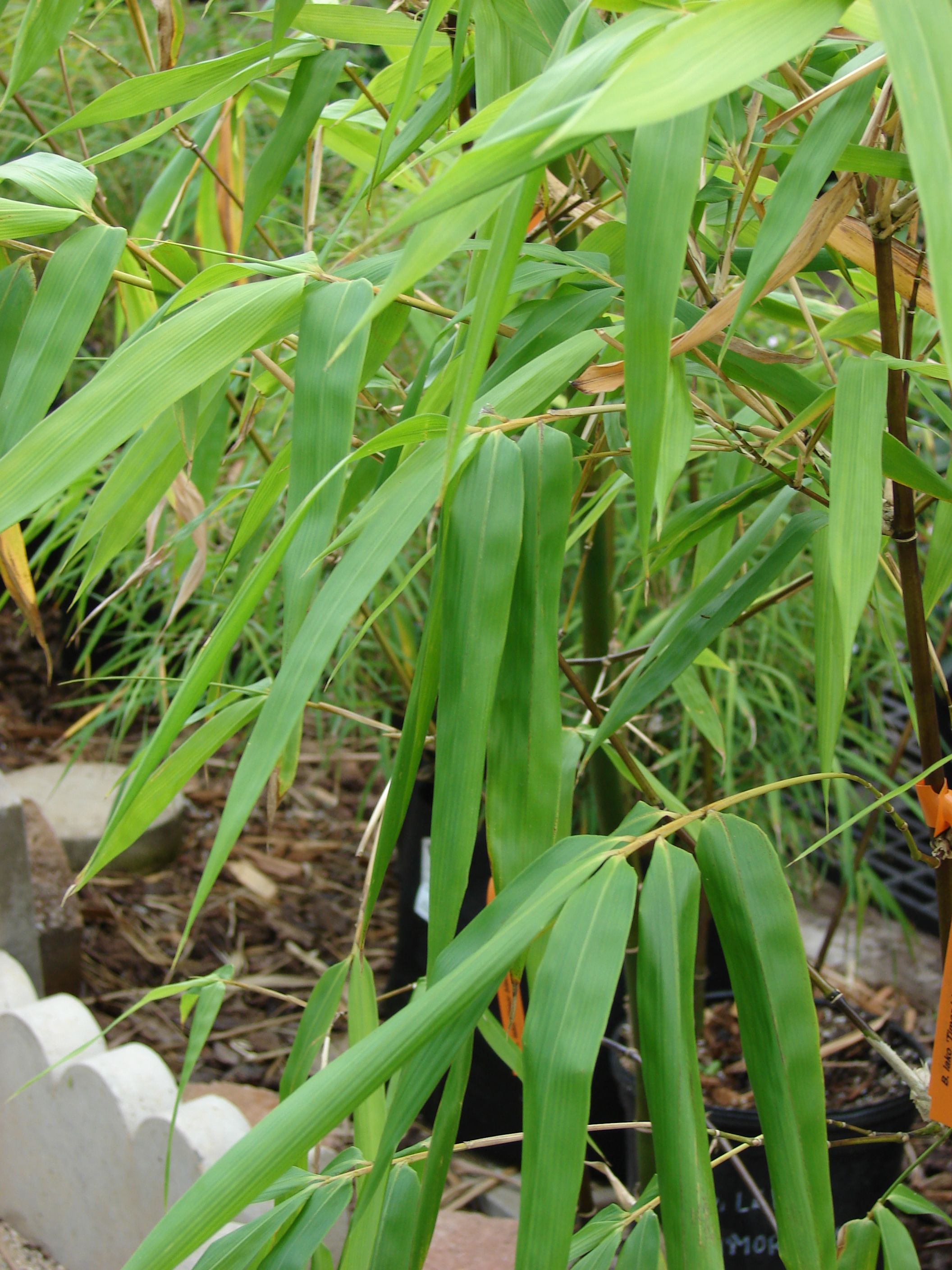 Bambusa lako (Timor black leaves). Location: Maui, Kula Ace Hardware and Nursery